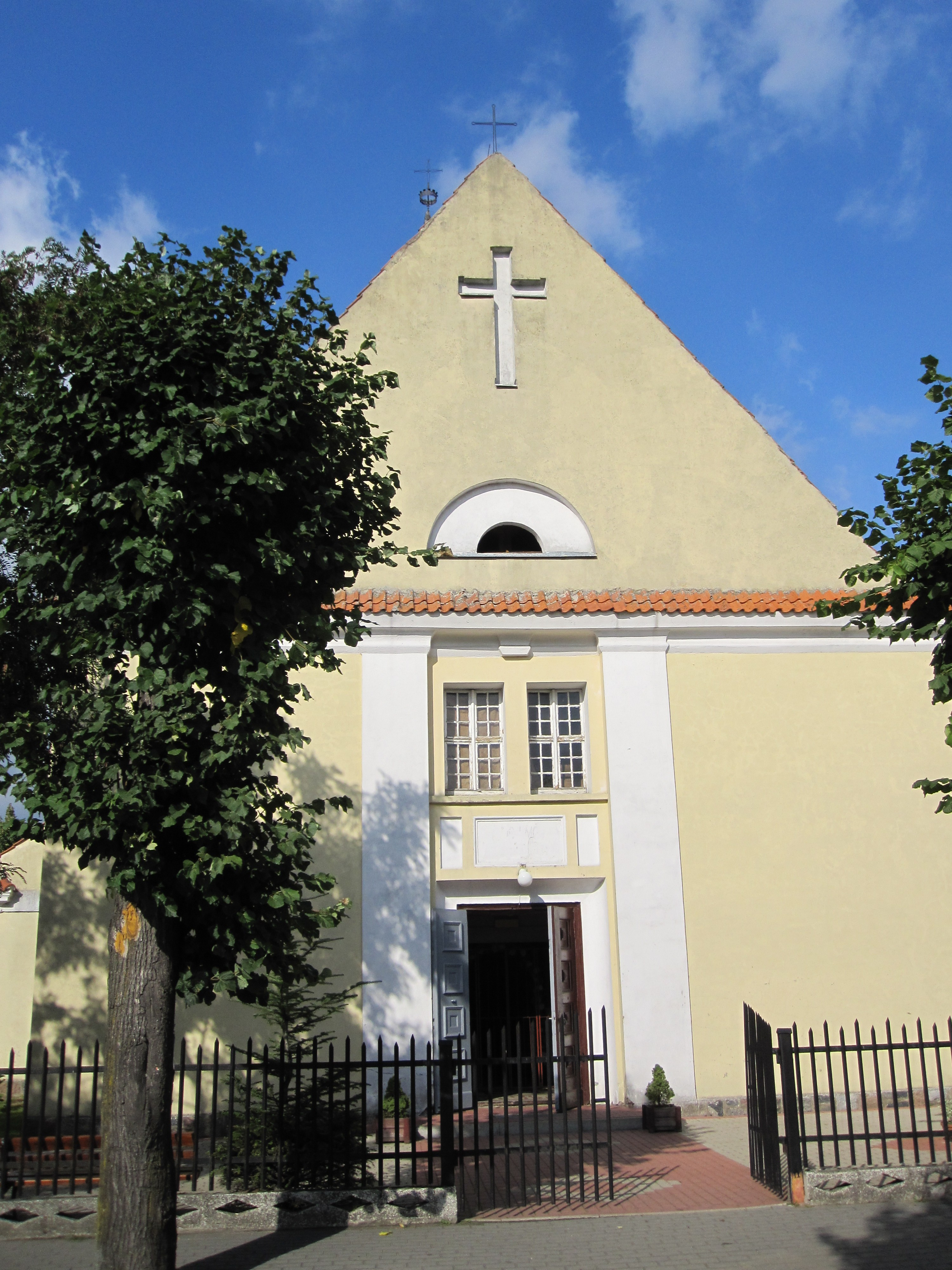 Saint Andrew Bobola church in Świętajno